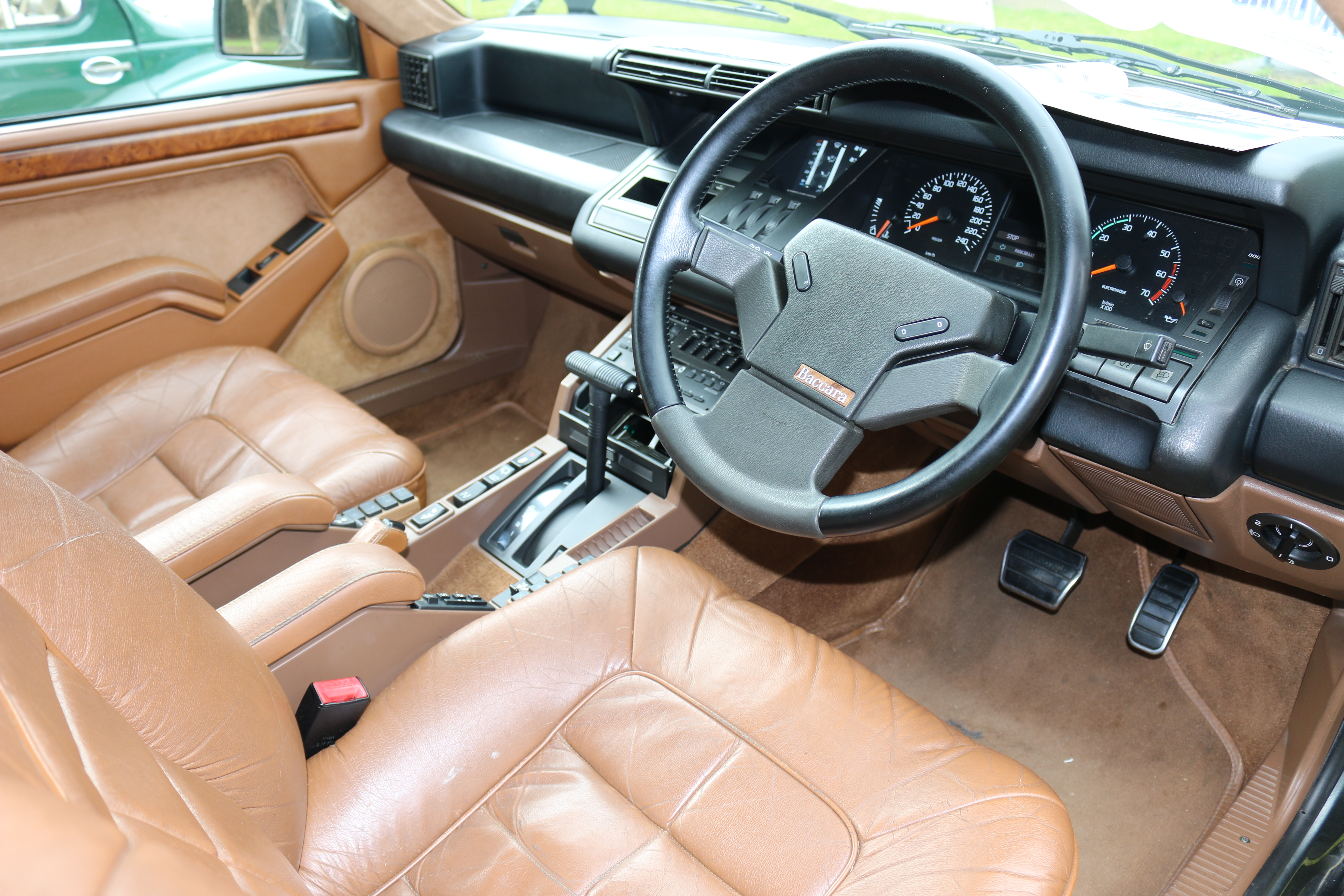 All French Day, Silverwater Park, NSW July 2016